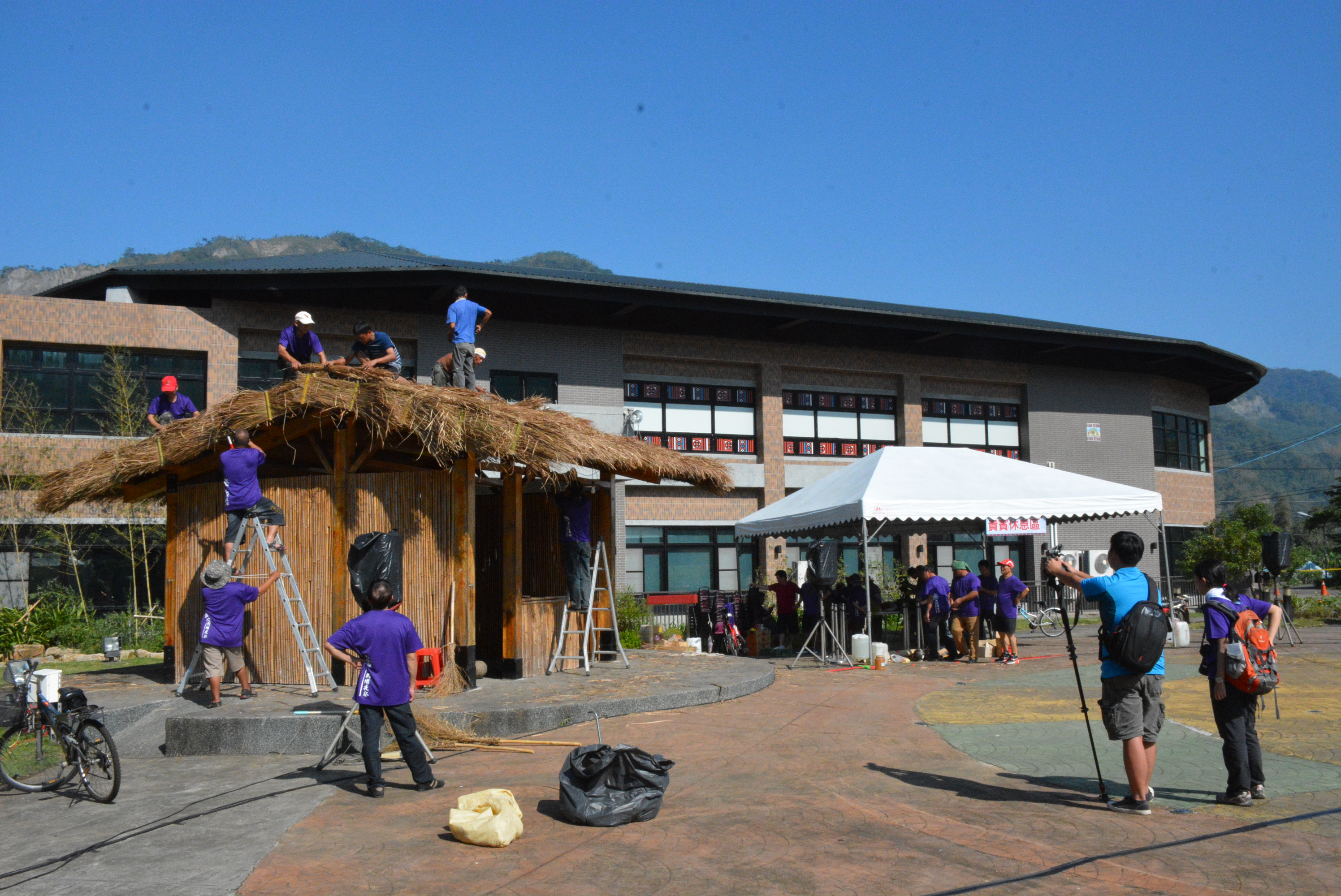 The Shrine of indigenous Taivoan people in Xiaolin.